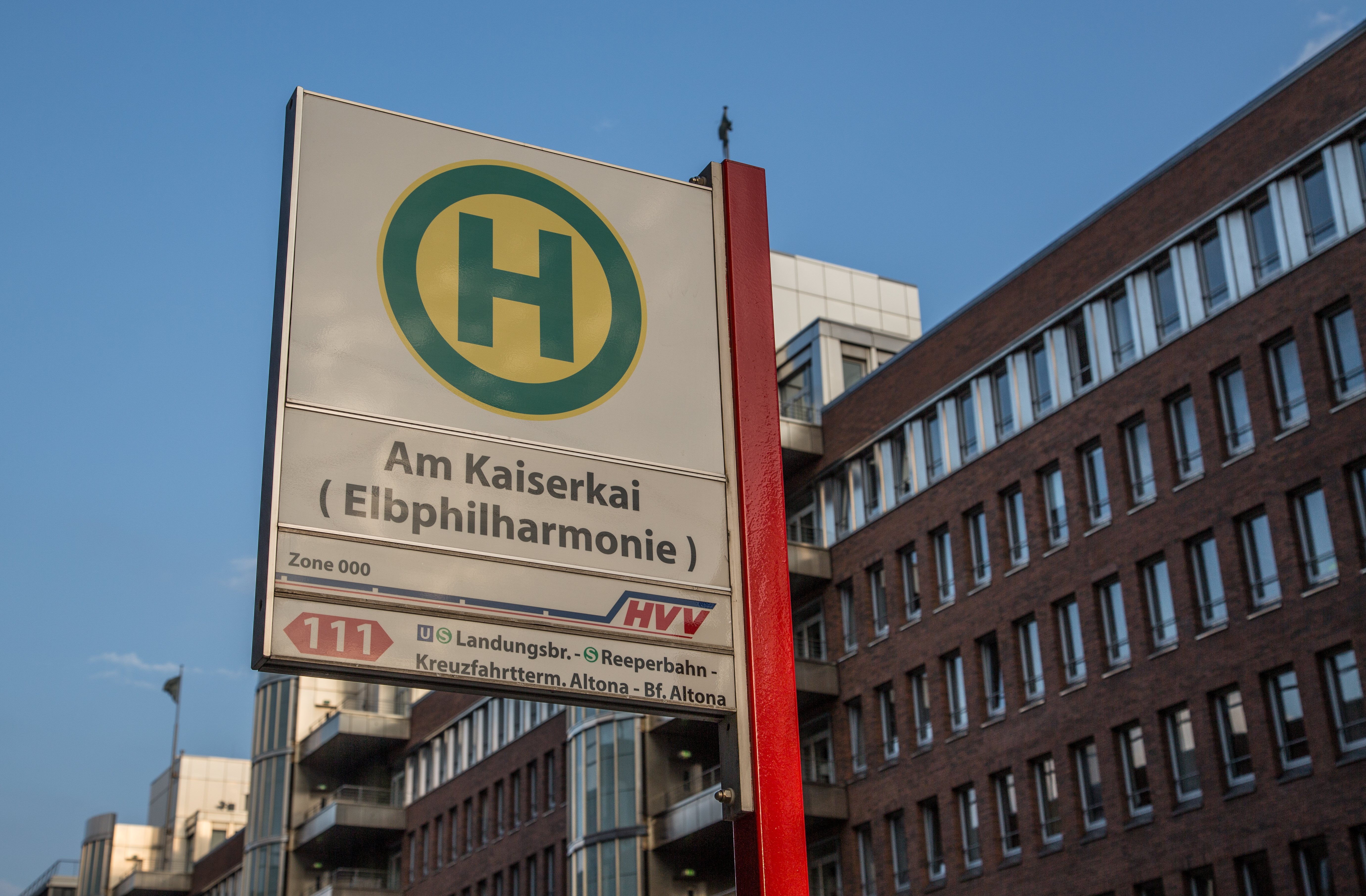 Hamburg, Germany Licensing